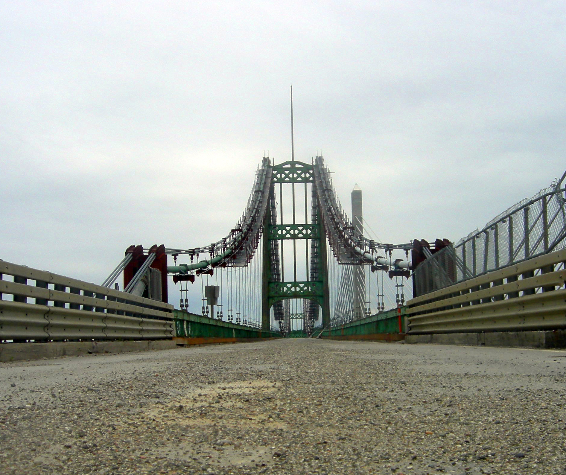 Waldo-Hancock Bridge, Bucksport, ME in July, 2007 after its abandonment seven months earlier on December 31, 2006